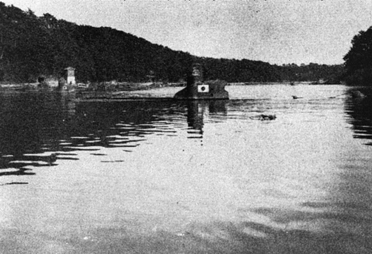 Photo #: NH 78660. Japanese "Kaiyu" Type Midget Submarine. Partially submerged, circa October-December 1945. Halftone photograph, copied from the U.S. Naval Technical Mission to Japan Report S-01-7: "Characteristics of Japanese Naval Vessels, Article 7: Submarines, Supplement II", January 1946, page 124, figure 134. U.S. Naval Historical Center Photograph.